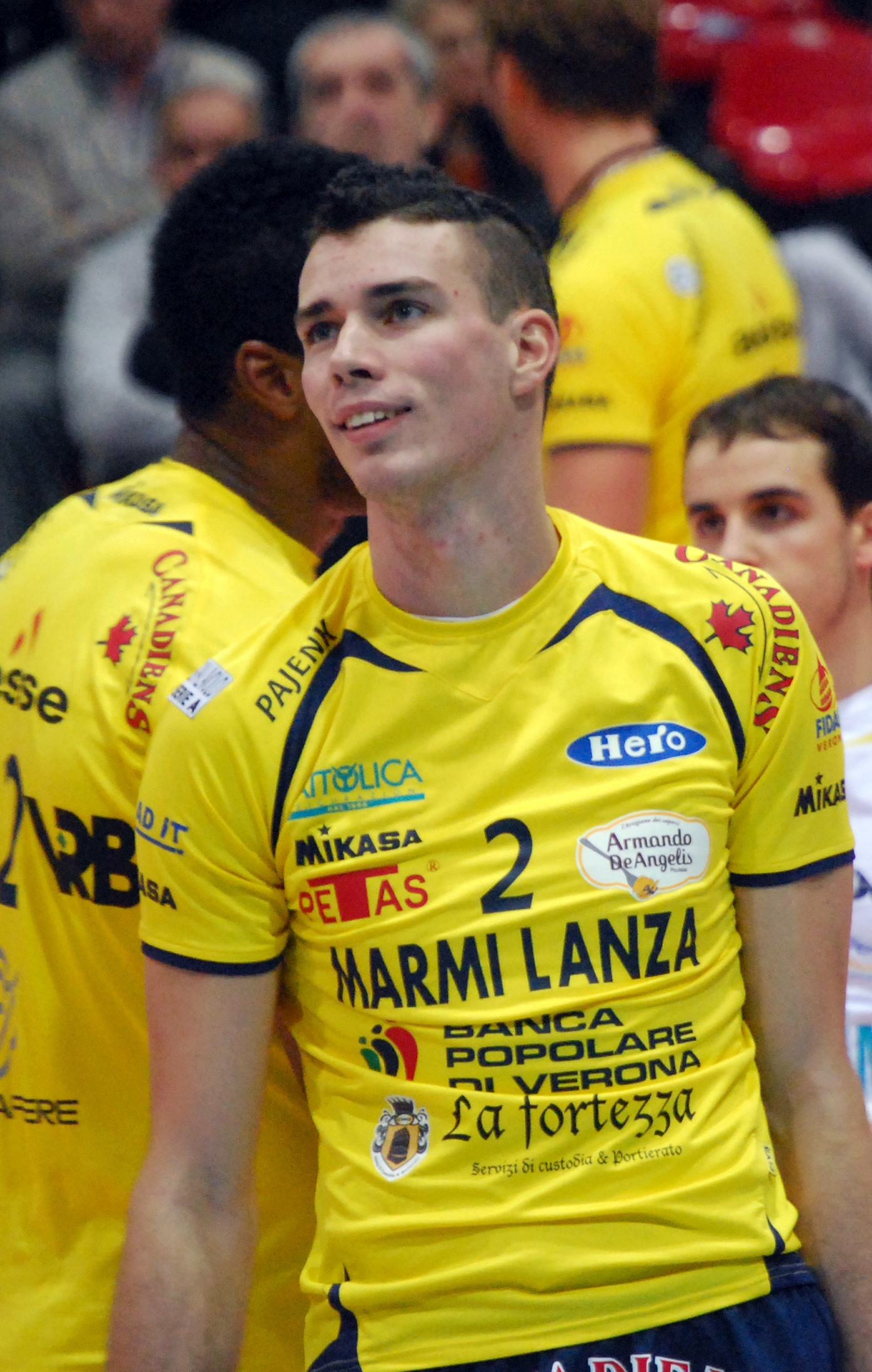 I took this pic during a volleyball match in Piacenza.